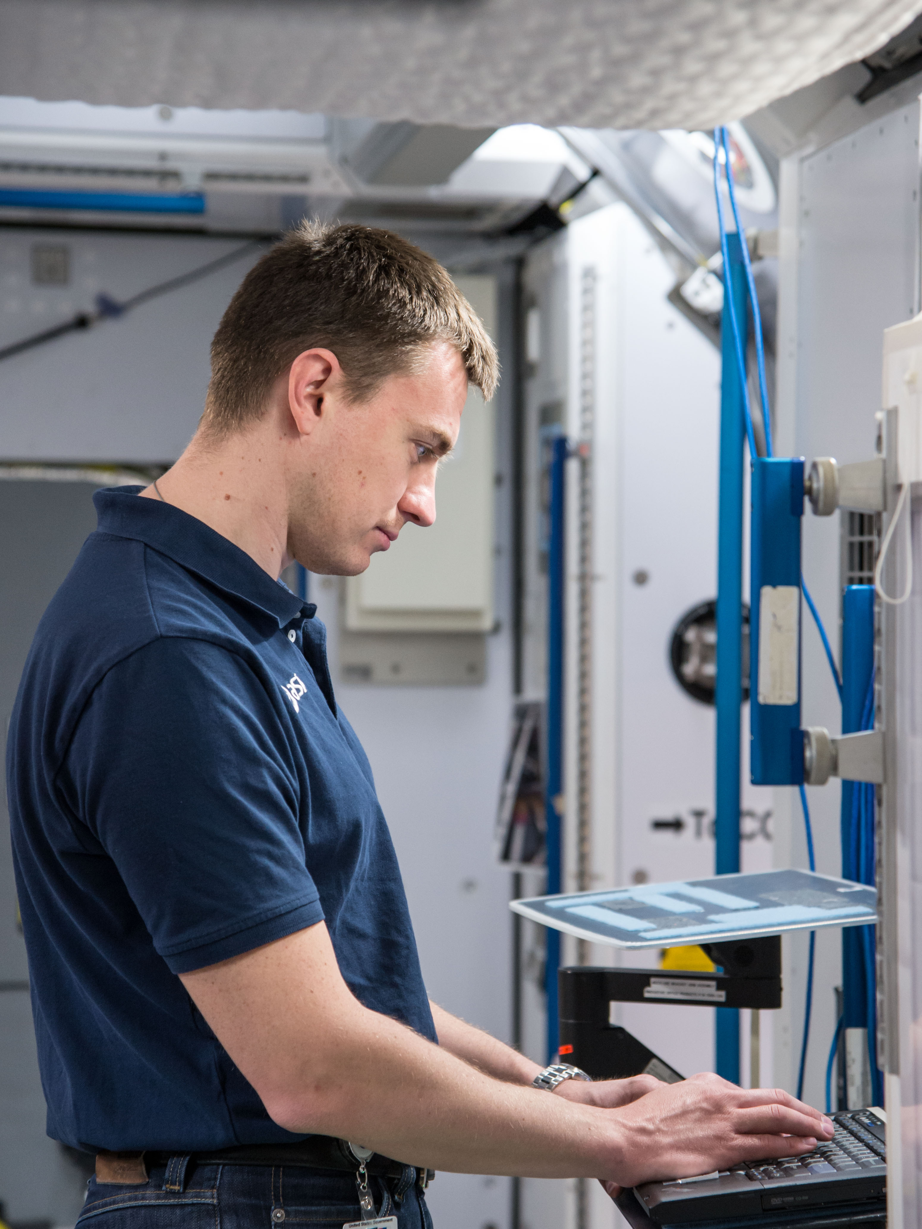 Expedition 51/52 crew member Nikolai Tikhonov during Fire Scene Generic training.